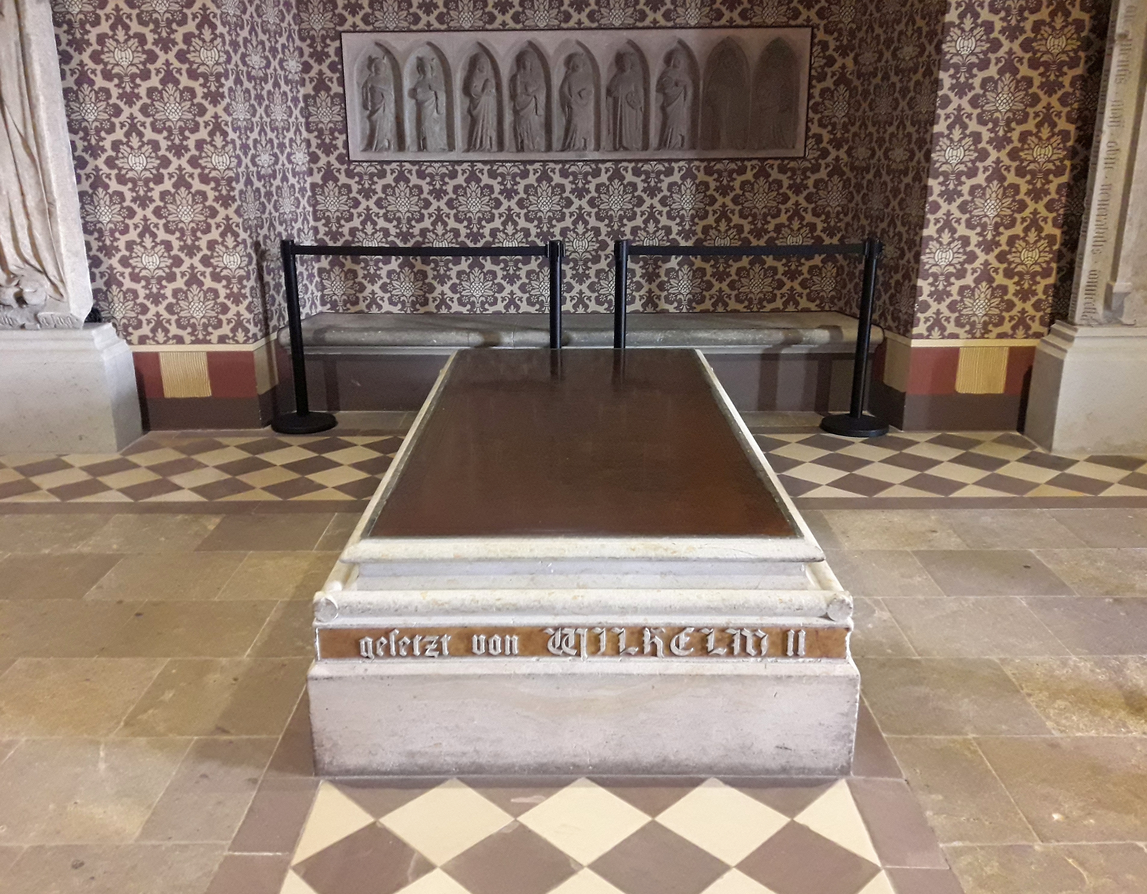 Schlosskirche Wittenberg: Memorial cenotaph (eastern side) dedicated to the medieval princes of Anhalt from the House of Ascania who are buried within the church. The inscription from 1891 honours Prussian king and German Emperor Wilhelm II. who had encouraged the renovation of the church.